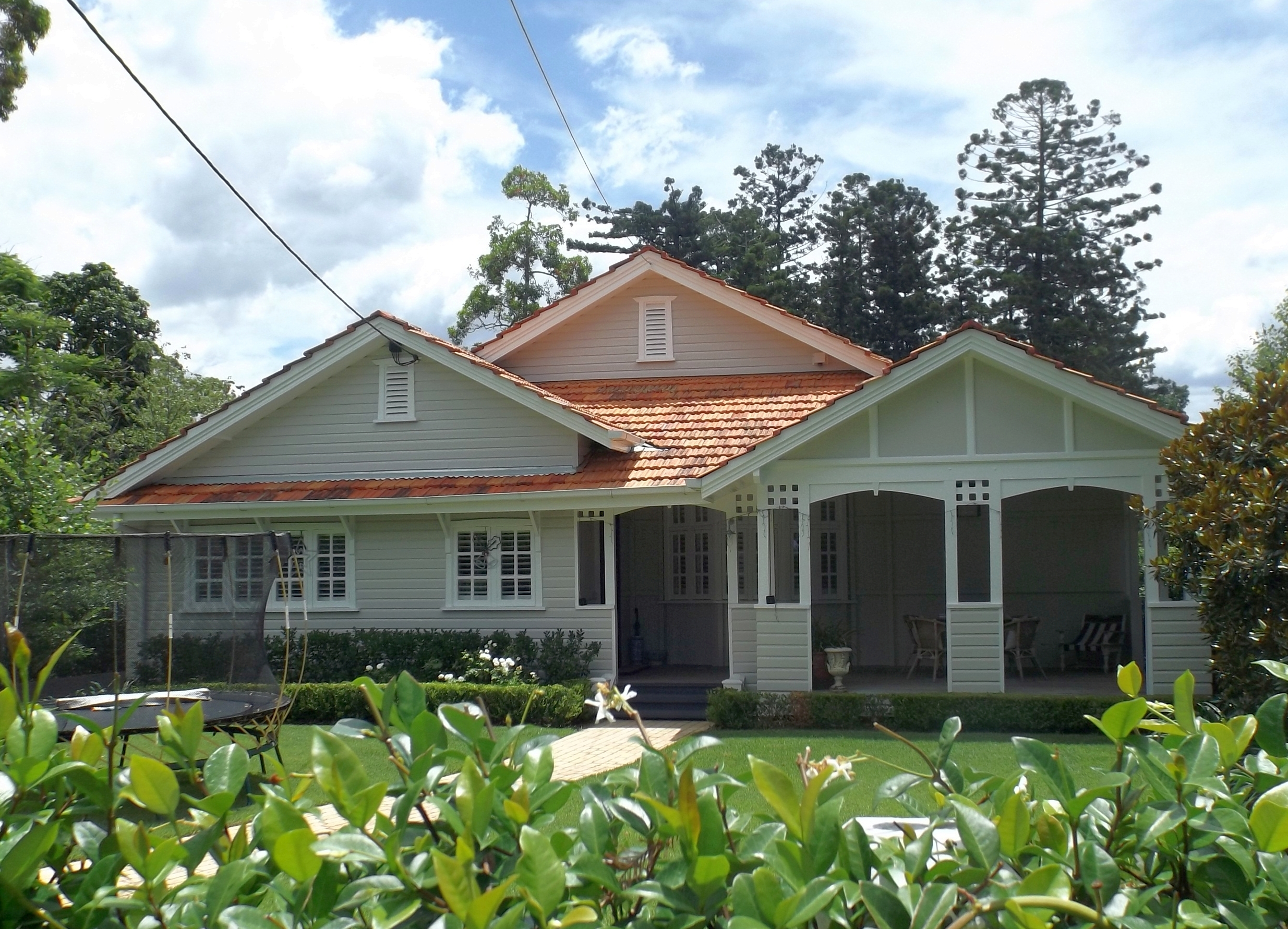 Photo of the front of Swain House at Chelmer, Brisbane, Queensland, Australia.